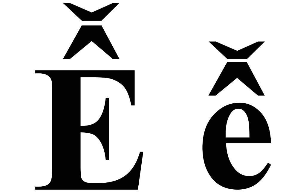 E Latin lowercase letter e short circumflex